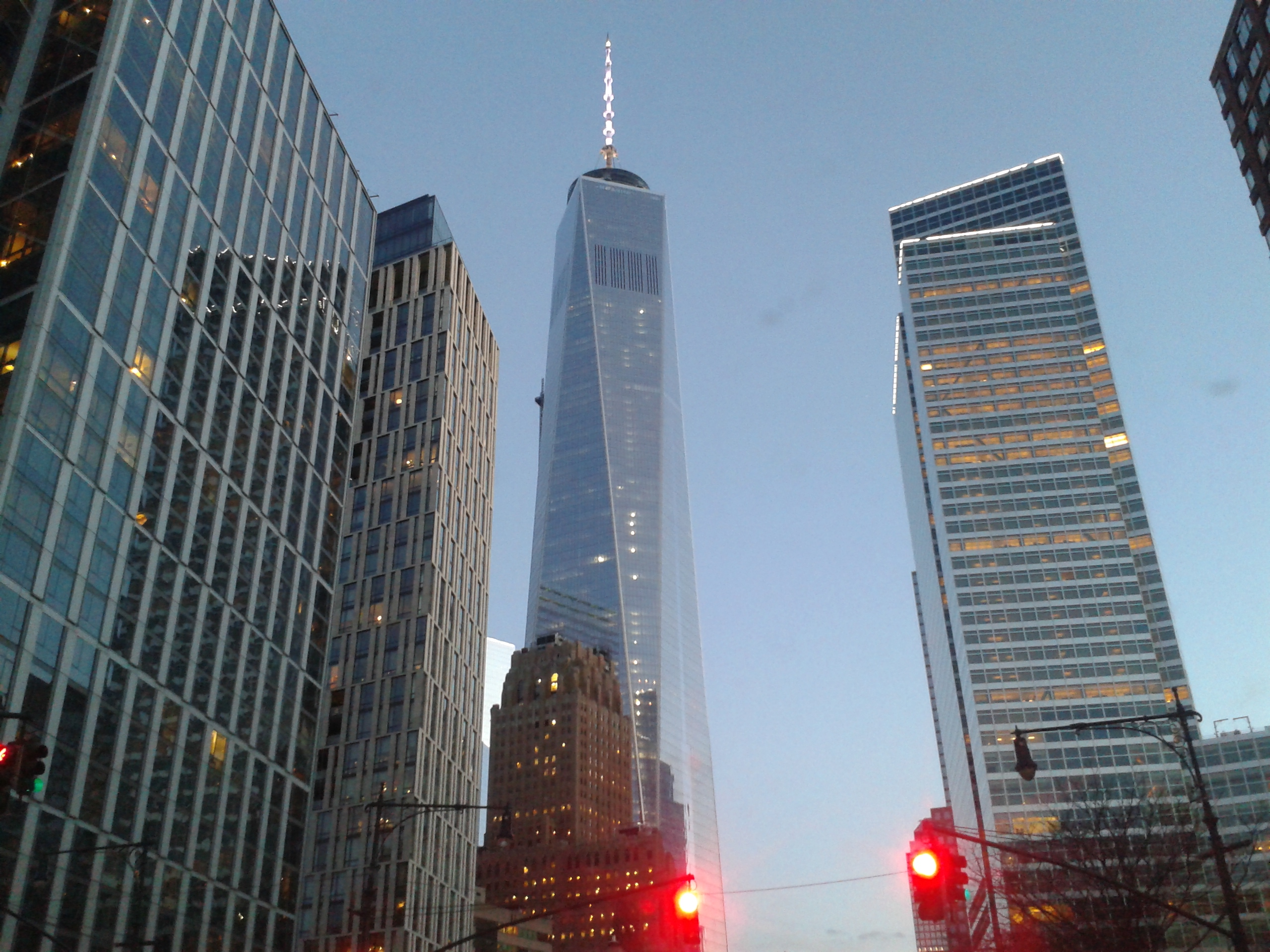 Looking at the new One World Trade Center in New York from the ground